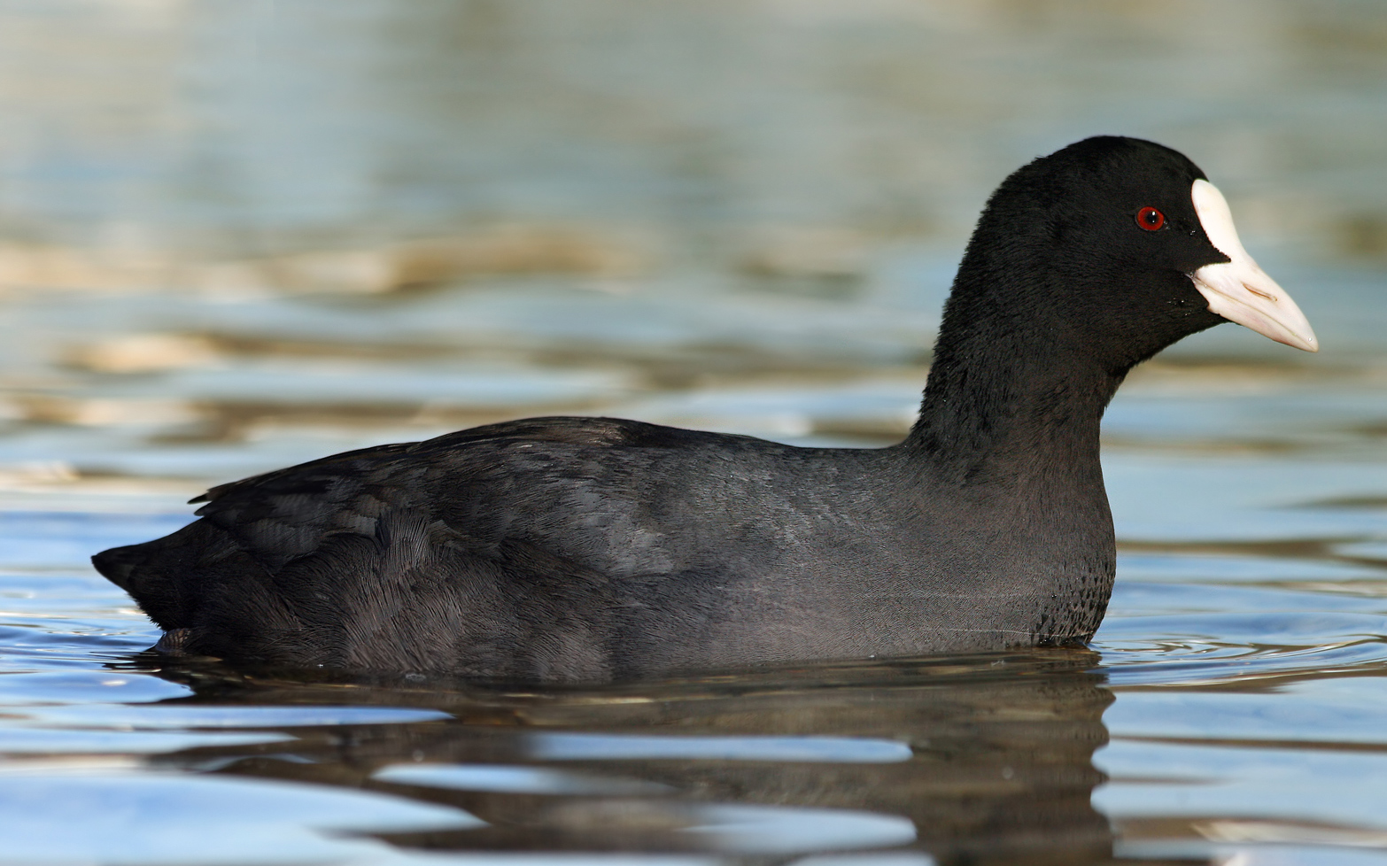 Description: The Eurasian Coot Fulica atra, or known as Coot, is a member of the rail and crake bird family, the Rallidae.